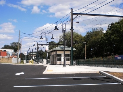 Thoto of the recently renovated Olney Station on the Fox Chase Line